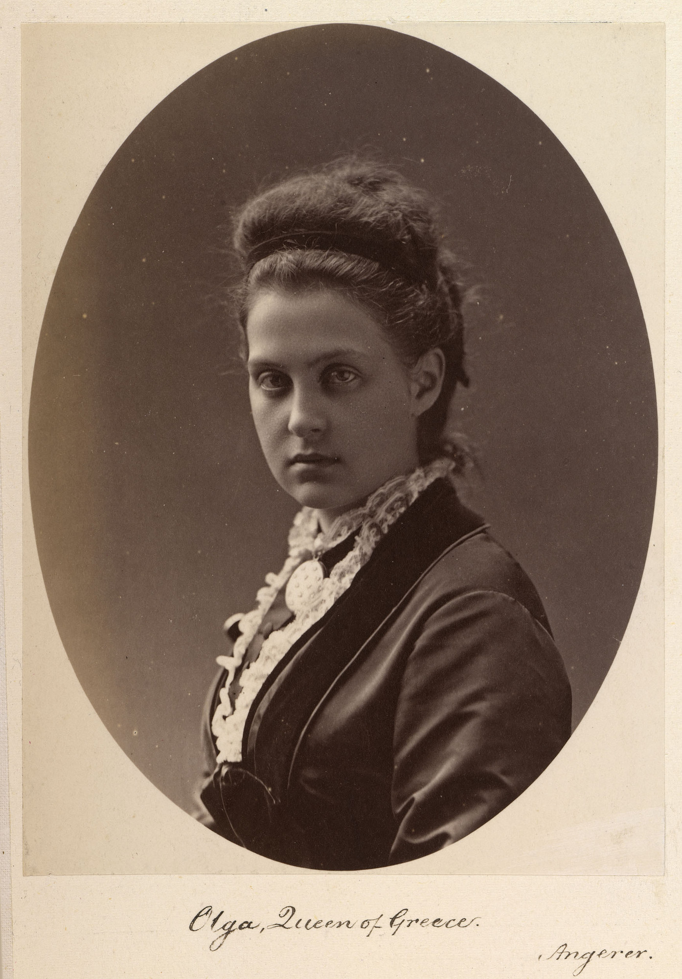 Queen Olga of the Hellenes, 1873